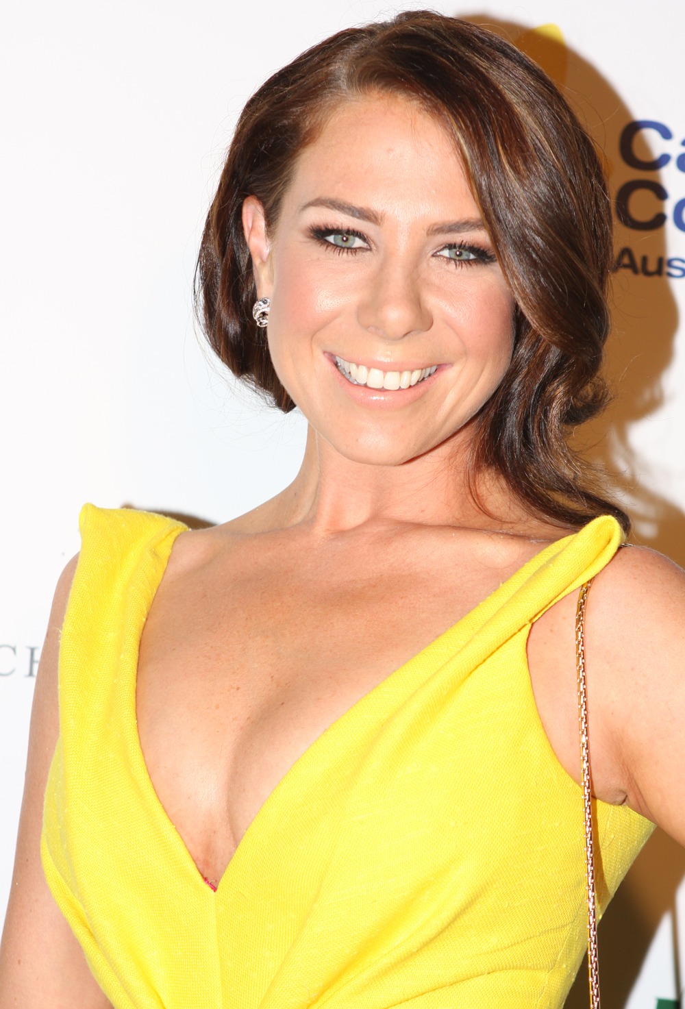 Kate Ritchie at The Emeralds & Ivy Ball in Sydney 2012